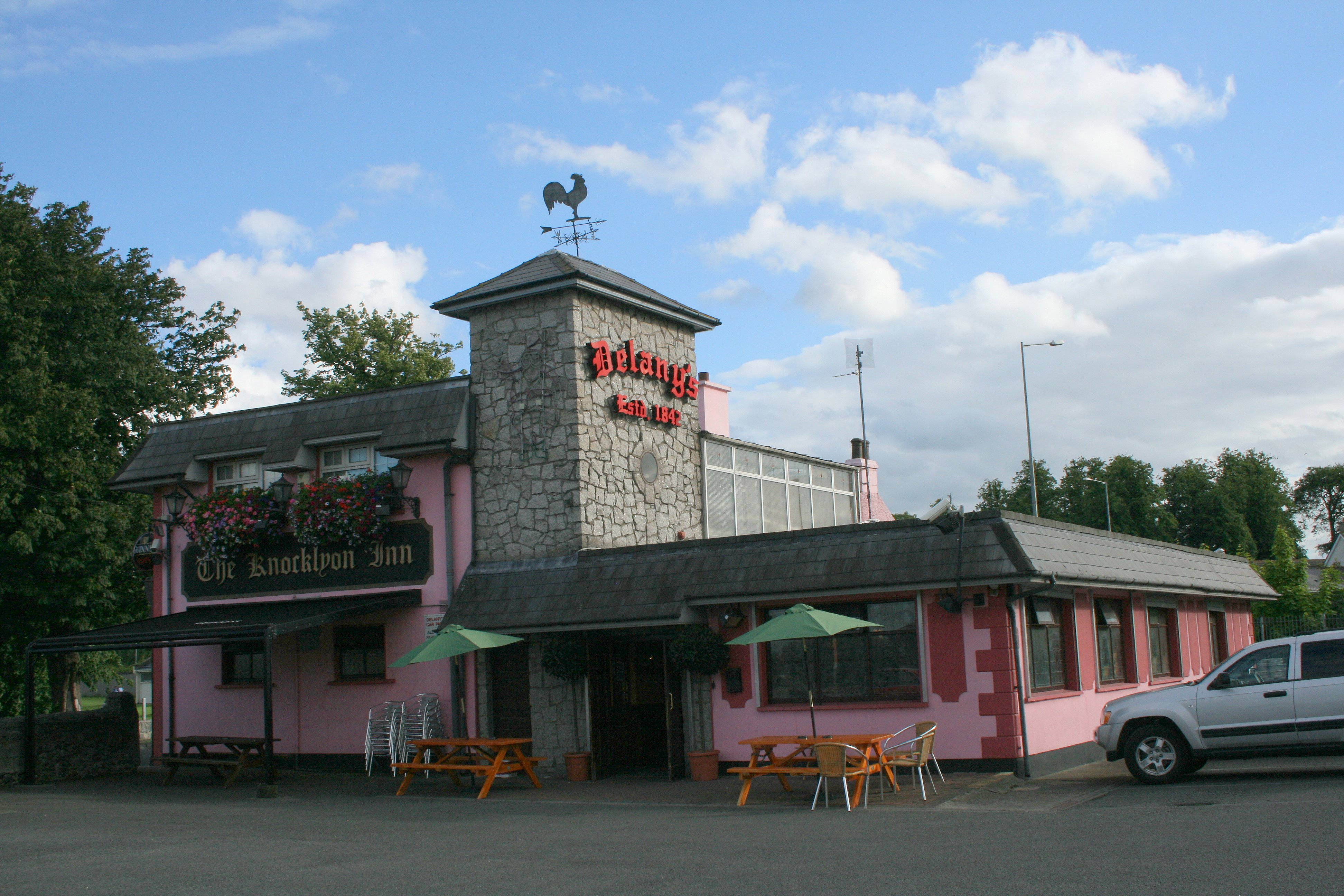 Delany's, or The Knocklyon Inn, in Knocklyon, Dublin.